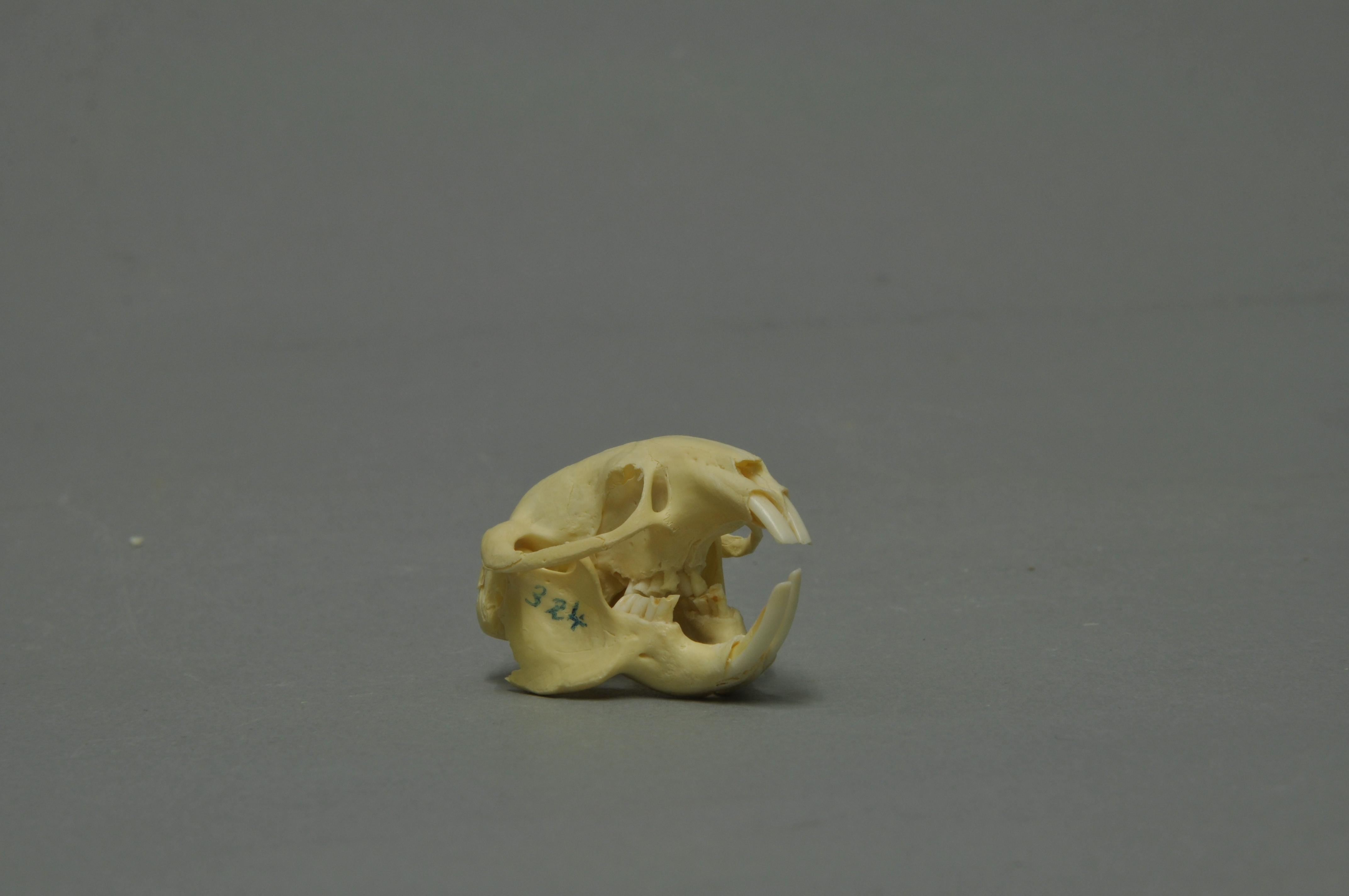 Silvery mole rat Heliophobius argenteocinereus, skull, Coll. Museum Wiesbaden